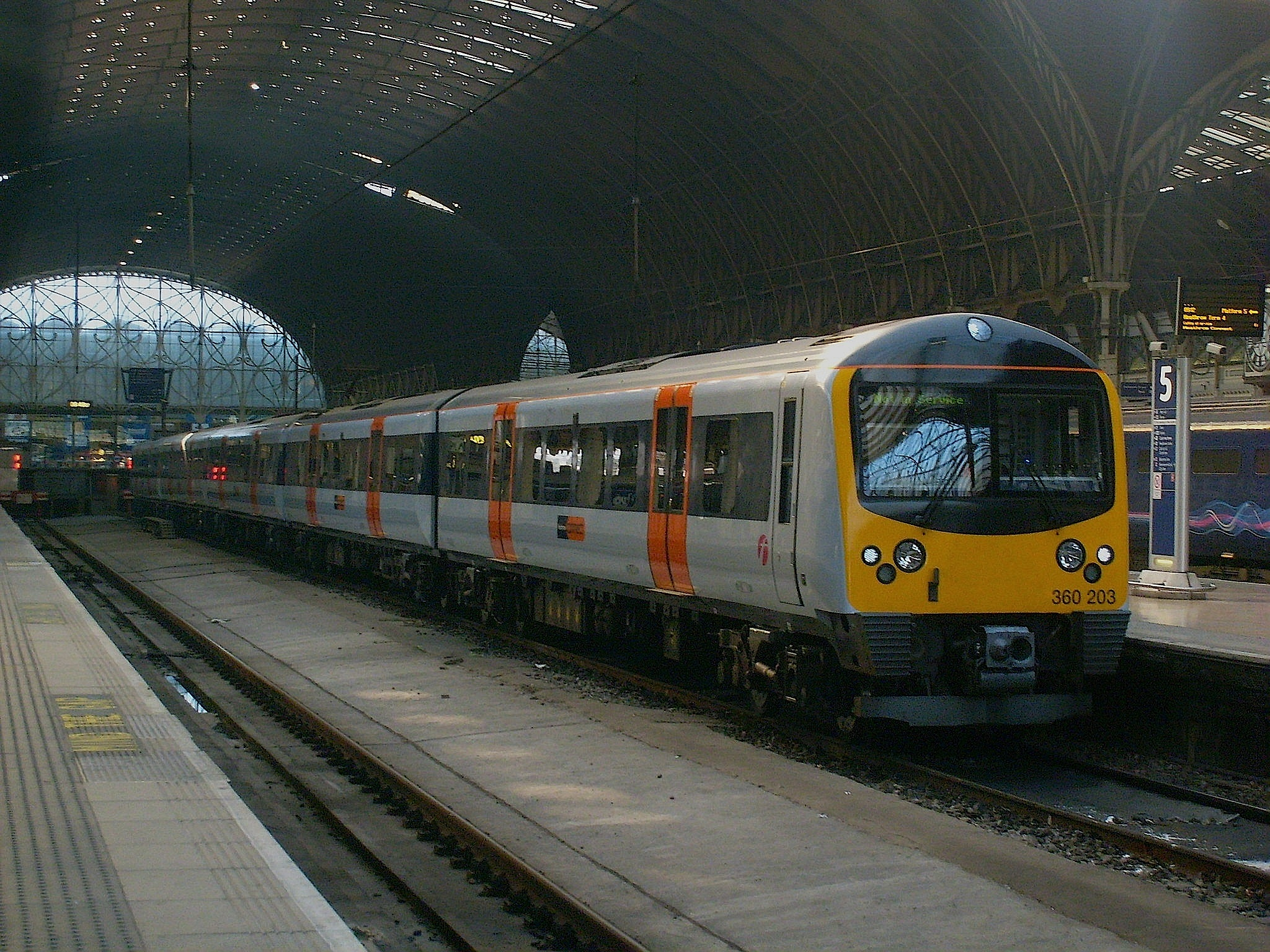 Heathrow Connect Siemens Class 360/2 Desiro EMU No. 360203, at London Paddington, unusually in the Heathrow Express platform.